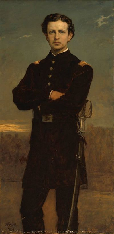 Portrait of Lieut. Huntington Forthingham Wolcott, oil on canvas, by Boston artist William Morris Hunt. Formerly in the collection of his brother Governor Roger Wolcott of Milton, Massachusetts. Courtesy of the Museum of Fine Arts, Boston, Massachusetts.